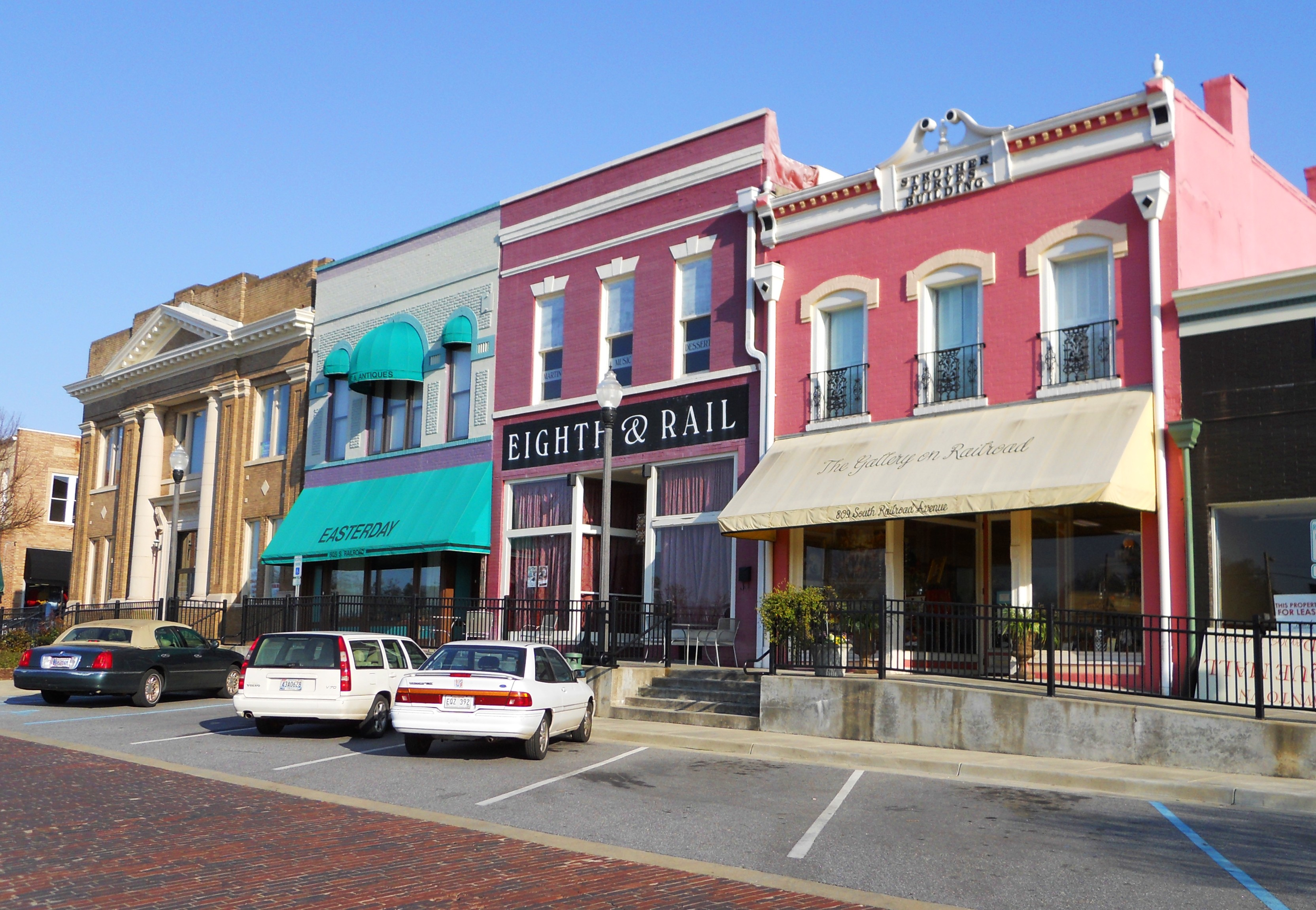 This is a photograph of the Railroad Avenue Historic District in Opelika, Alabama.